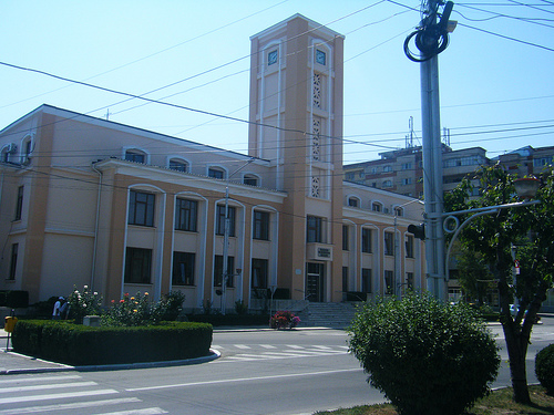 made in august 2009 in barlad victoria plaza